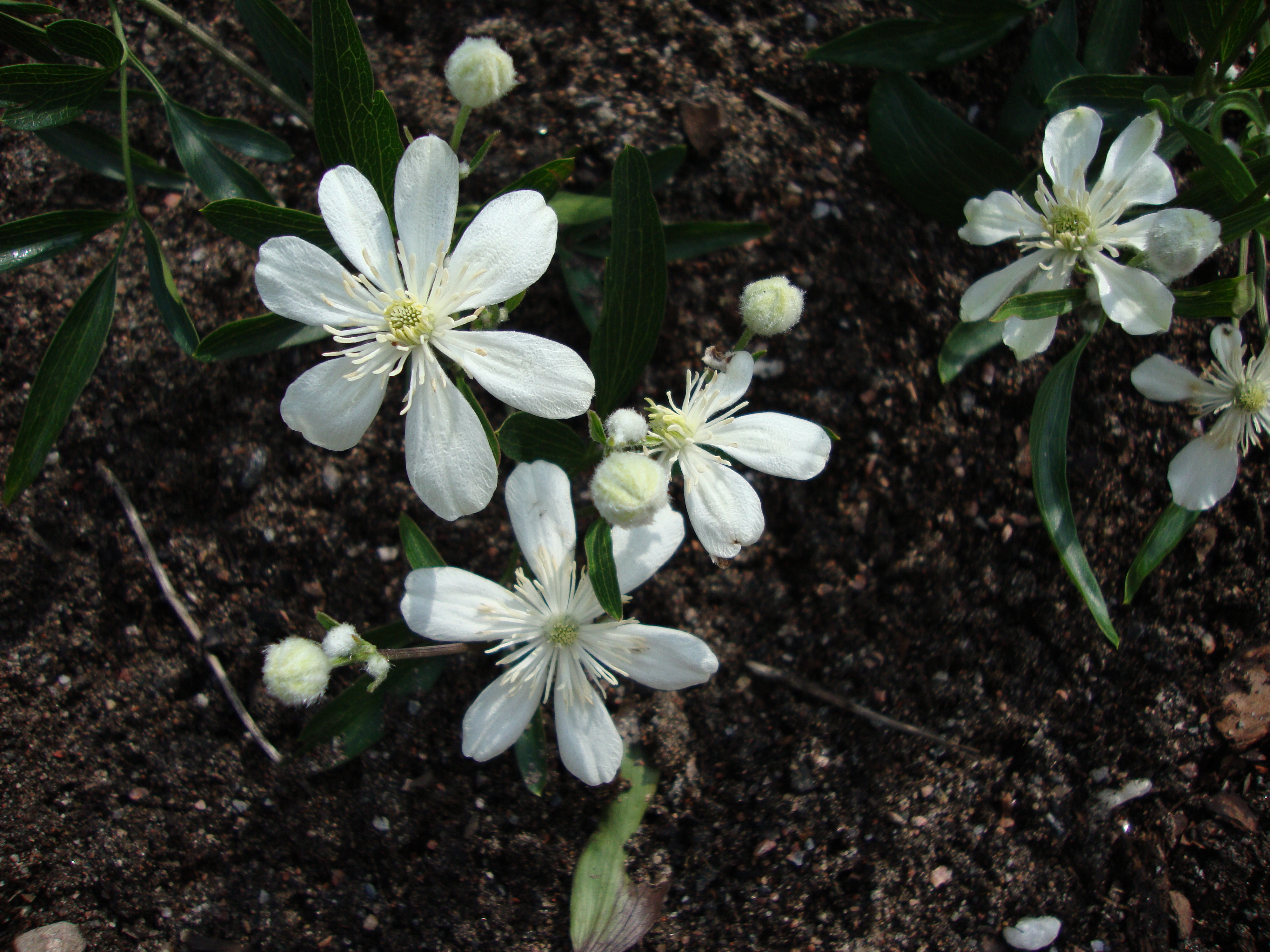 Clematis hexapetala var. hexapetala in Helsinki University Botanical Garden in Kumpula